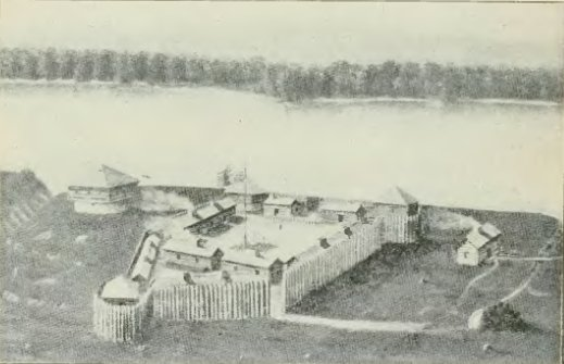 Illustration in History of Iowa From the Earliest Times to the Beginning of the Twentieth Century